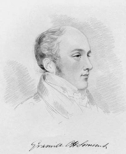 Portrait of lord Granville Somerset